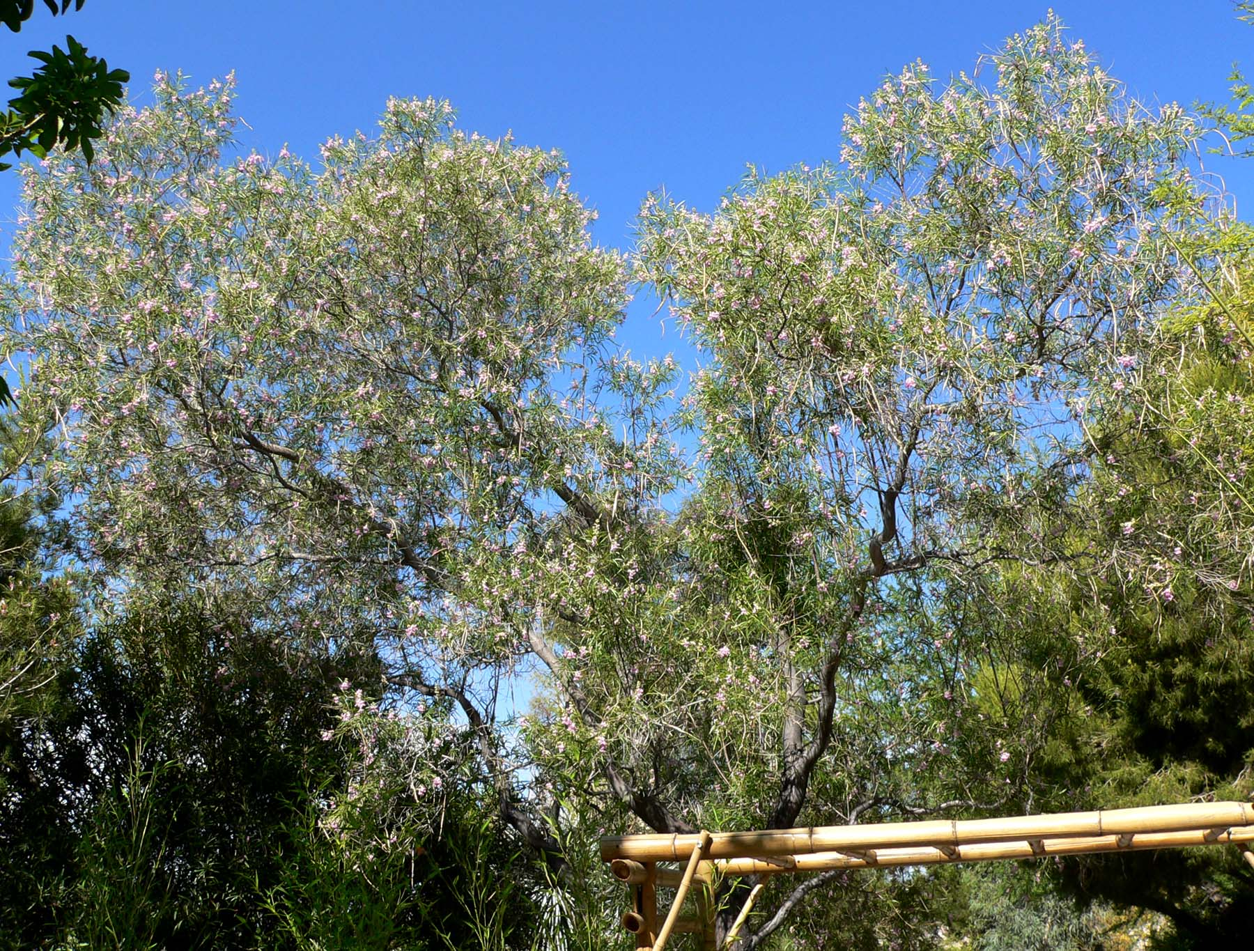 Photo of Chilopsis linearis (desert willow) at the Springs Preserve garden in Las Vegas, Nevada